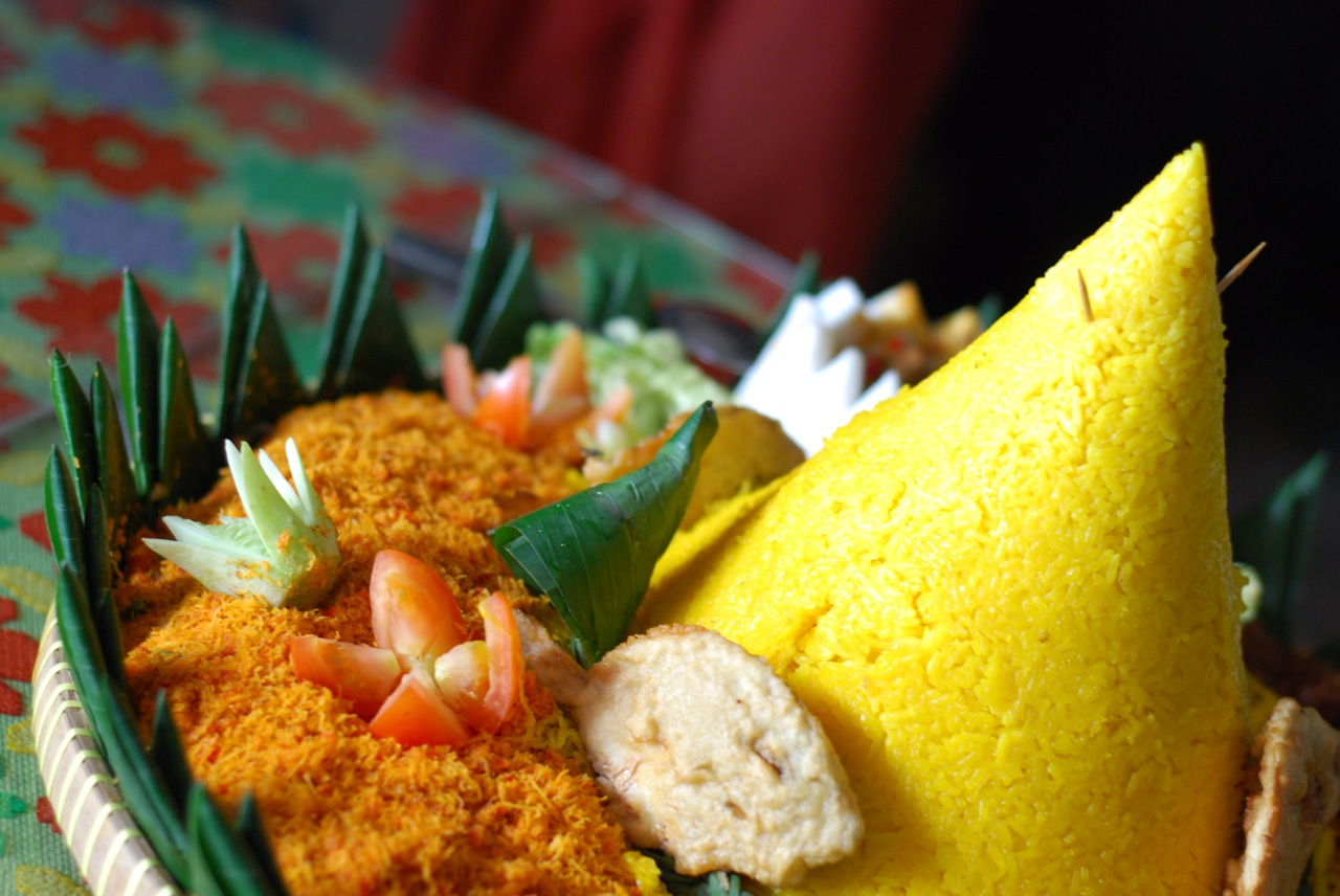 Nasi Kuning served with Serundeng